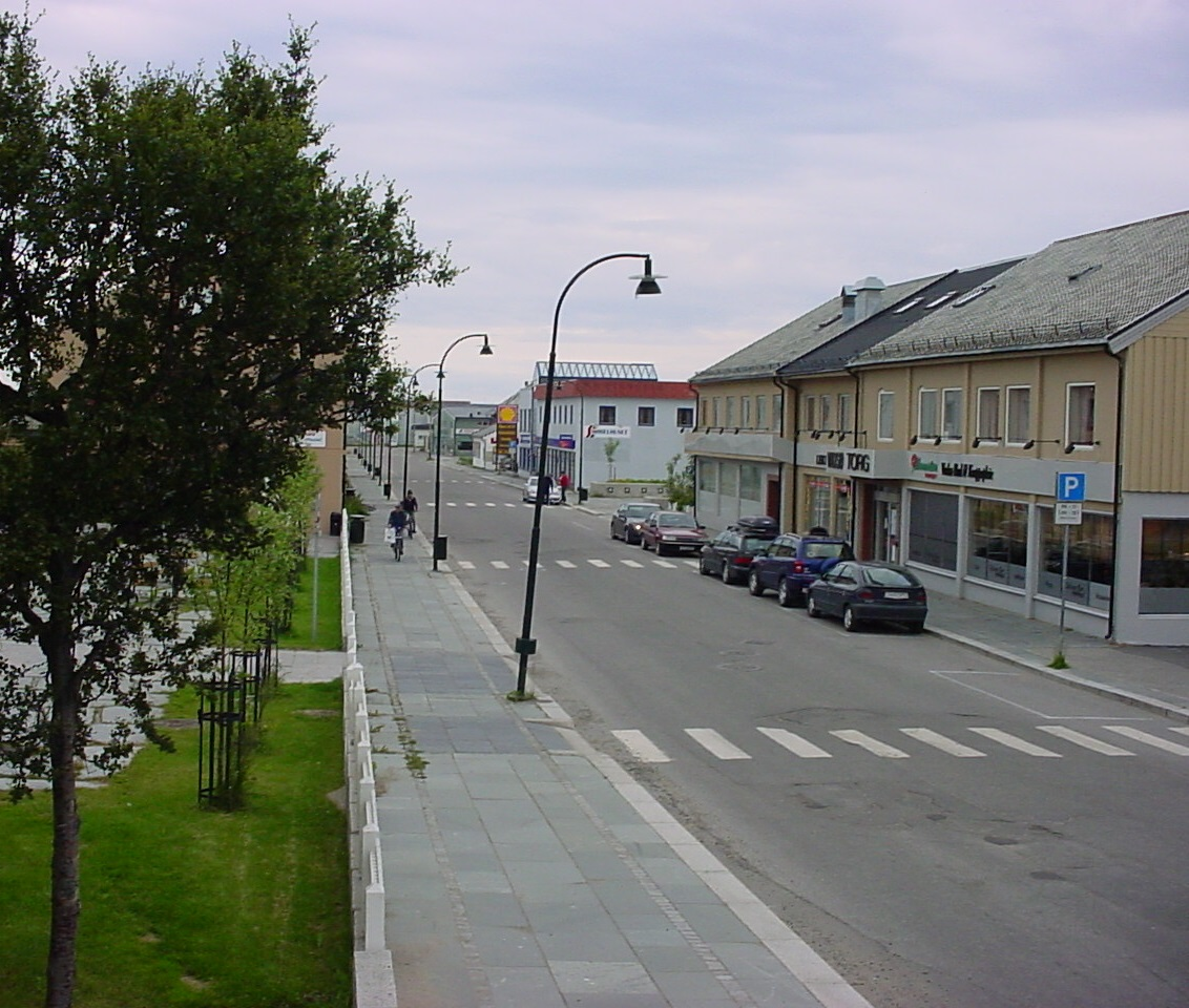 The street of Tollbugata in the city of Vadsø, North Norway